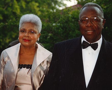 Wash D.C. 2002 Howard University